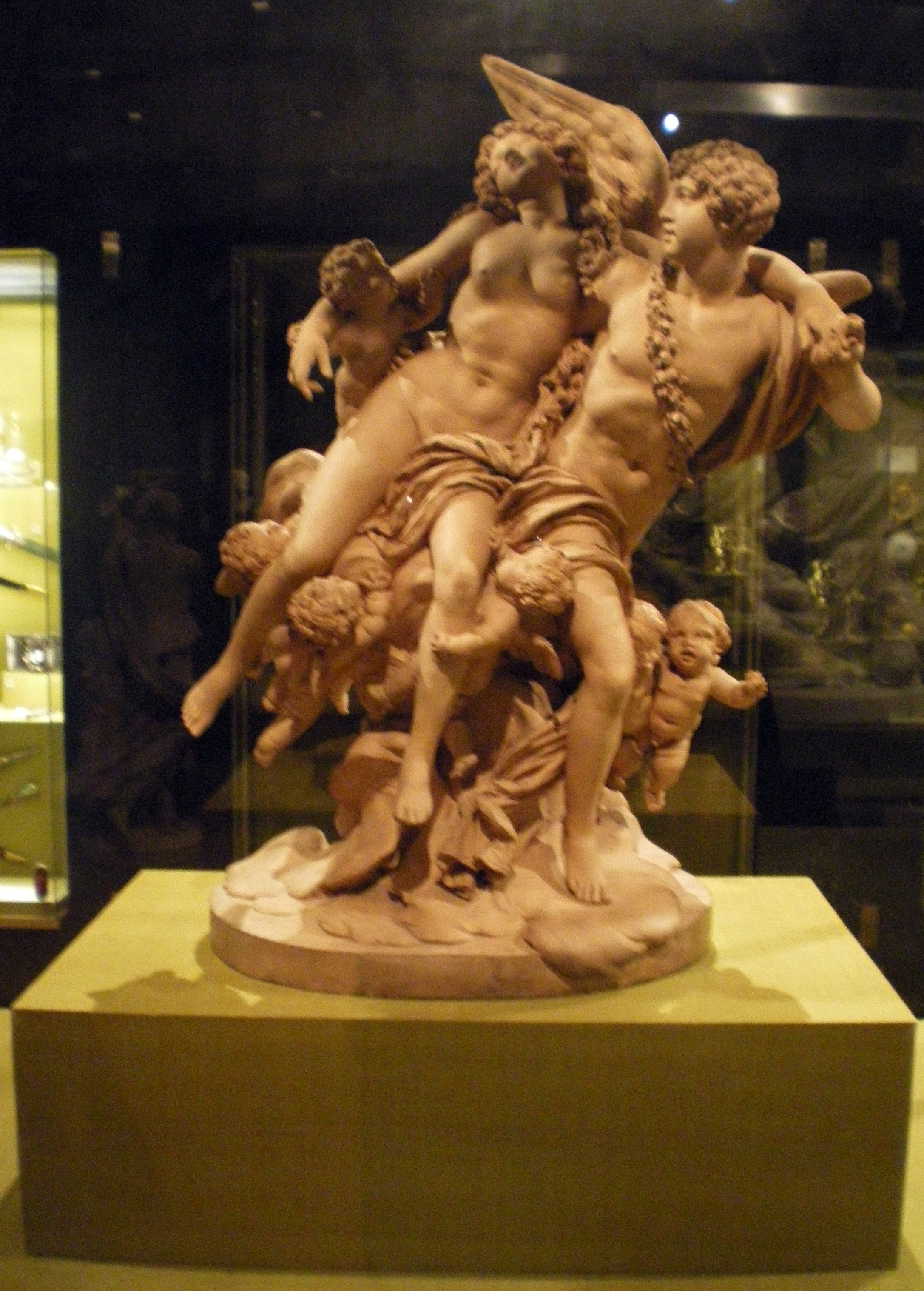 Sculpture Cupid and Psyche Terracotta Signed by Claude Michel (Clodion) (1738-1814) French Late 18th or early 19th century Museum no. A.23-1958 Wikipedia Loves Art at the Victoria and Albert Museum This photo of item # [1] at the Victoria and Albert Museum was contributed under the team name "the_arty_facts" as part of the Wikipedia Loves Art project in February 2009. Victoria and Albert Museum The original photograph on Flickr was taken by art_traveller—please add a comment to the original Flickr page whenever a use has been made on Wikipedia or another project. Project galleries on Flickr: this institution, this team